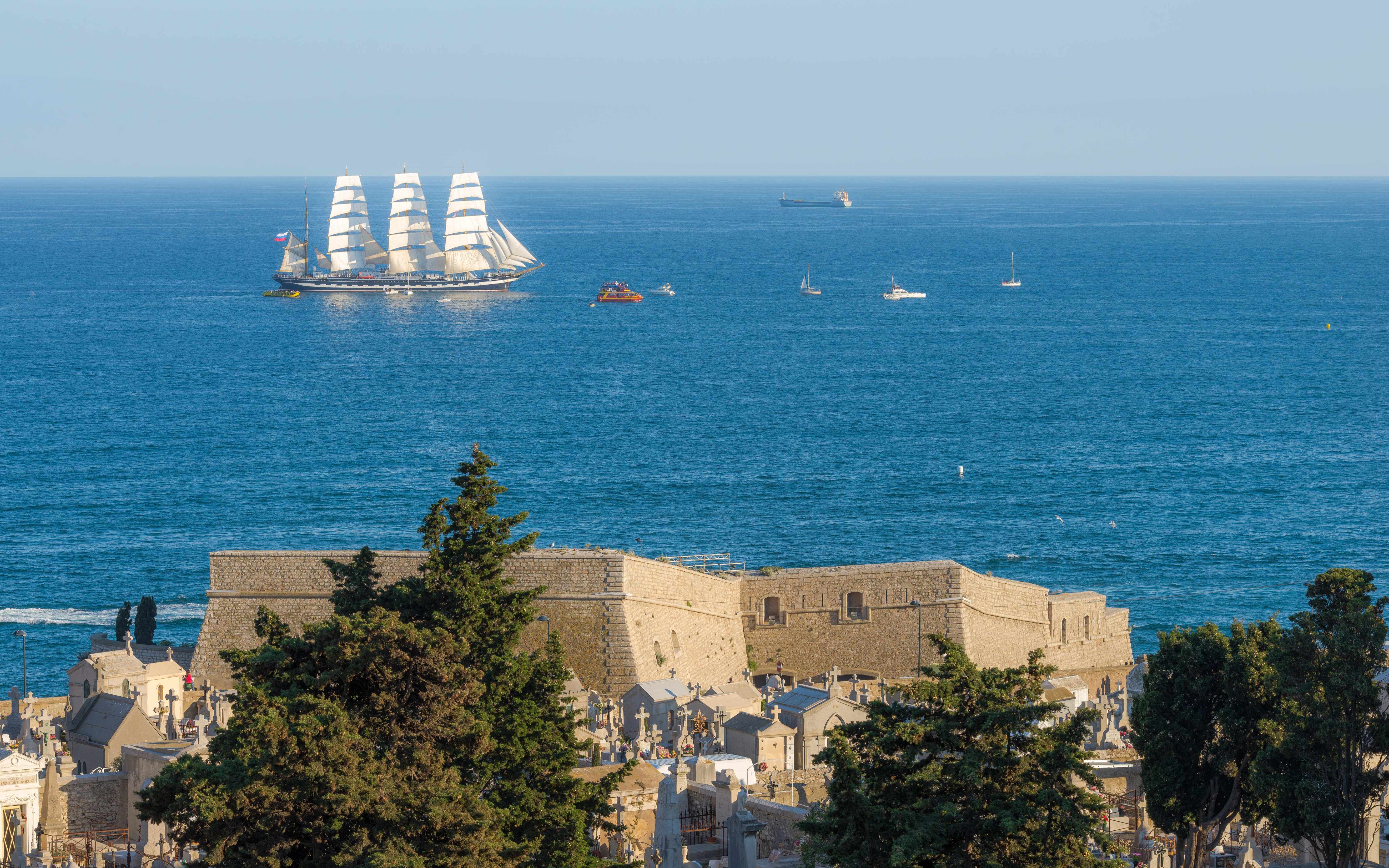 The Kruzenshtern (Russian four-masted barque, 1926) navigating in front of the Théâtre de la Mer (formerly Fort Saint Pierre, 1743) and of the marine graveyard. Sète, Hérault, France.